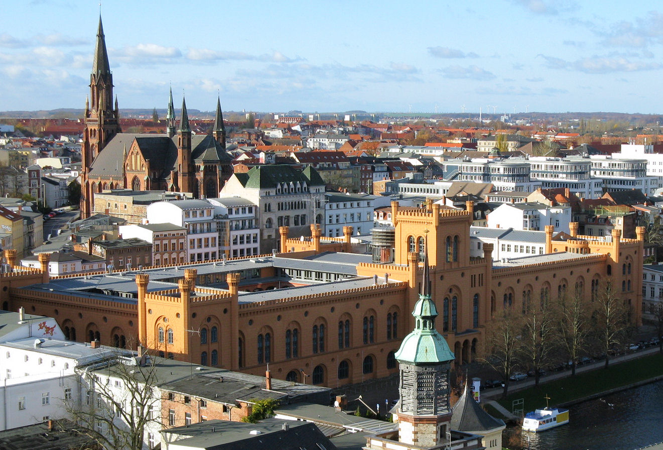 View from Cathedral to the Paulsstadt with Arsenal and St. Paul's Church in Schwerin, Mecklenburg-Vorpommern, Germany